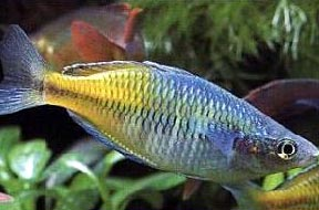 A picture of a male Bosemani Rainbow fish.